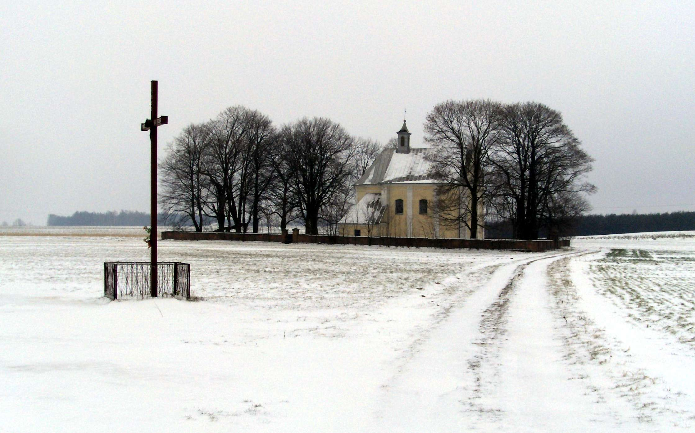 Stanisława church in Żelechów